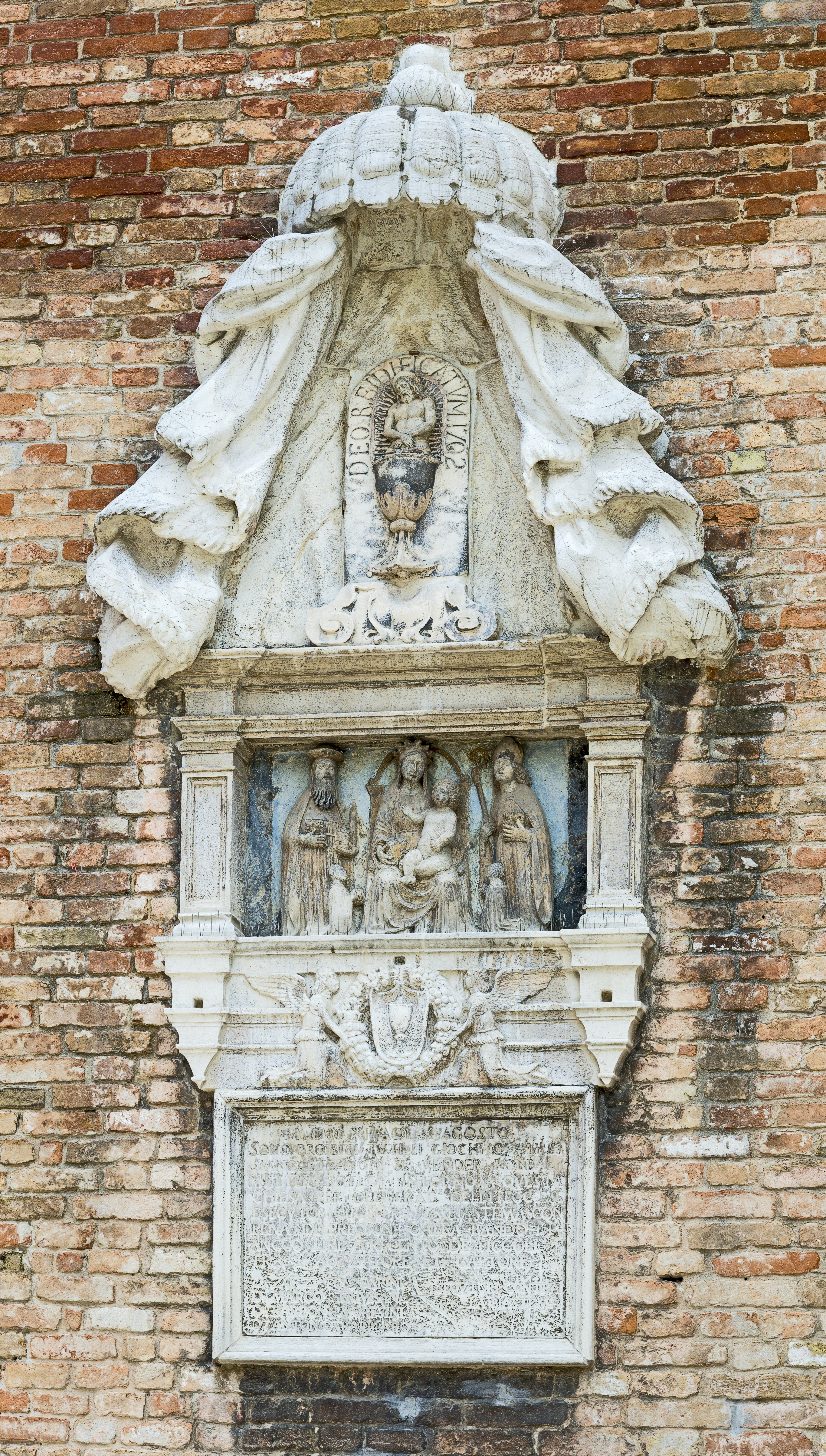 San Polo (church) - Campo San Polo acquired a playful identity: it was actually the scene of public festivals and games, like the ball game and the bull run. This situation became unbearable so that by 1611 all games and the sale of goods were eventually banned. A plaque at the entrance of Campo on the left side of the church's apse reflects this prohibition.